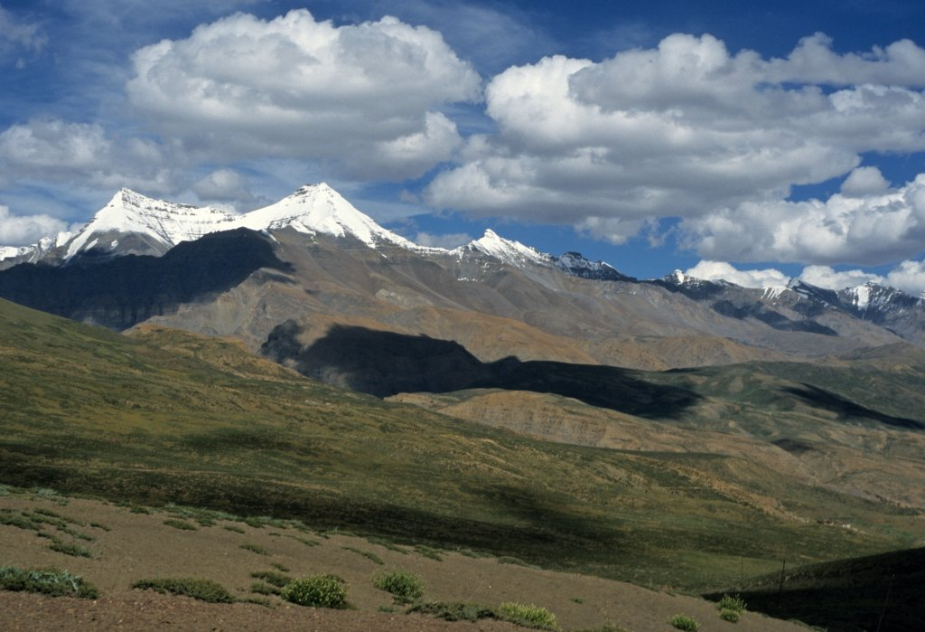 View of Shilla (7026 meters).